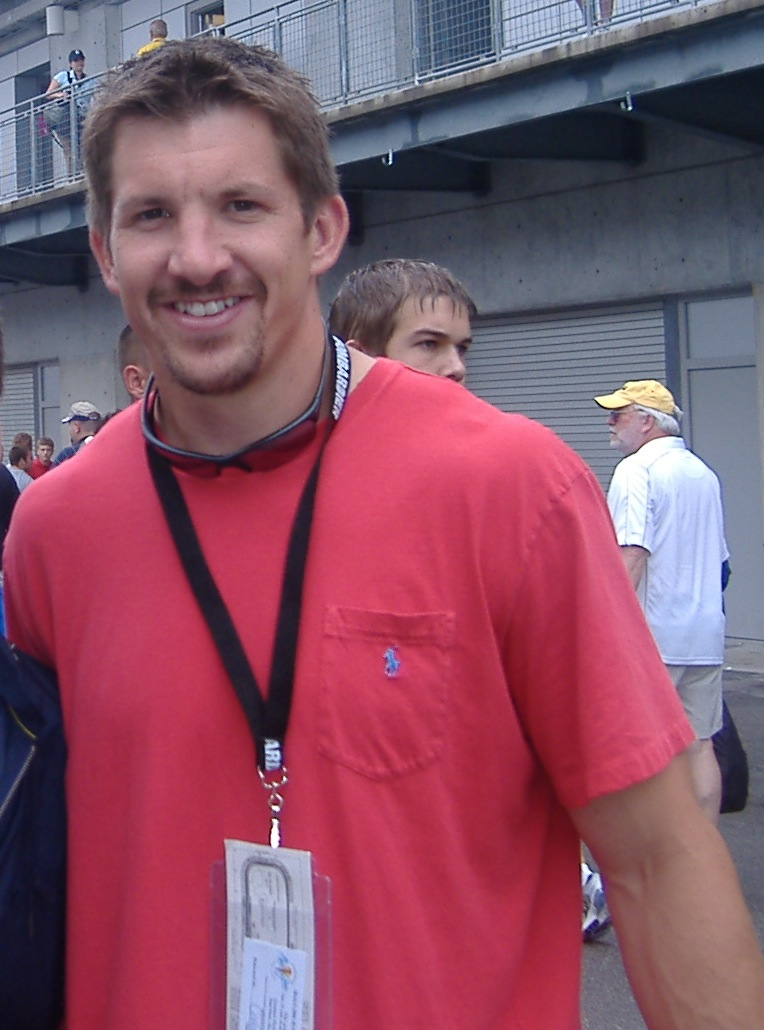 Indianapolis Colts tight end Dallas Clark at the 2007 Indianapolis 500-Mile Race on May 27, 2007